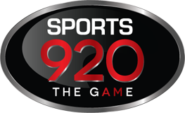 Current logo for Las Vegas radio station KBAD, taken from their website